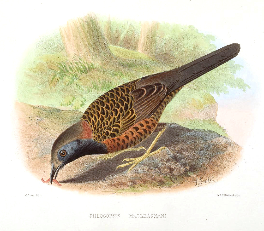 Phlogopsis macleannani = Phaenostictus mcleannani